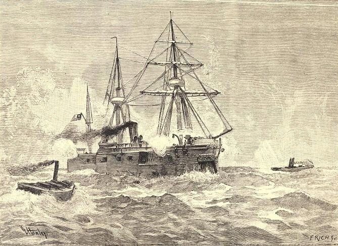 Attack on the "Cochrane" by Torpedo Boats, page 74